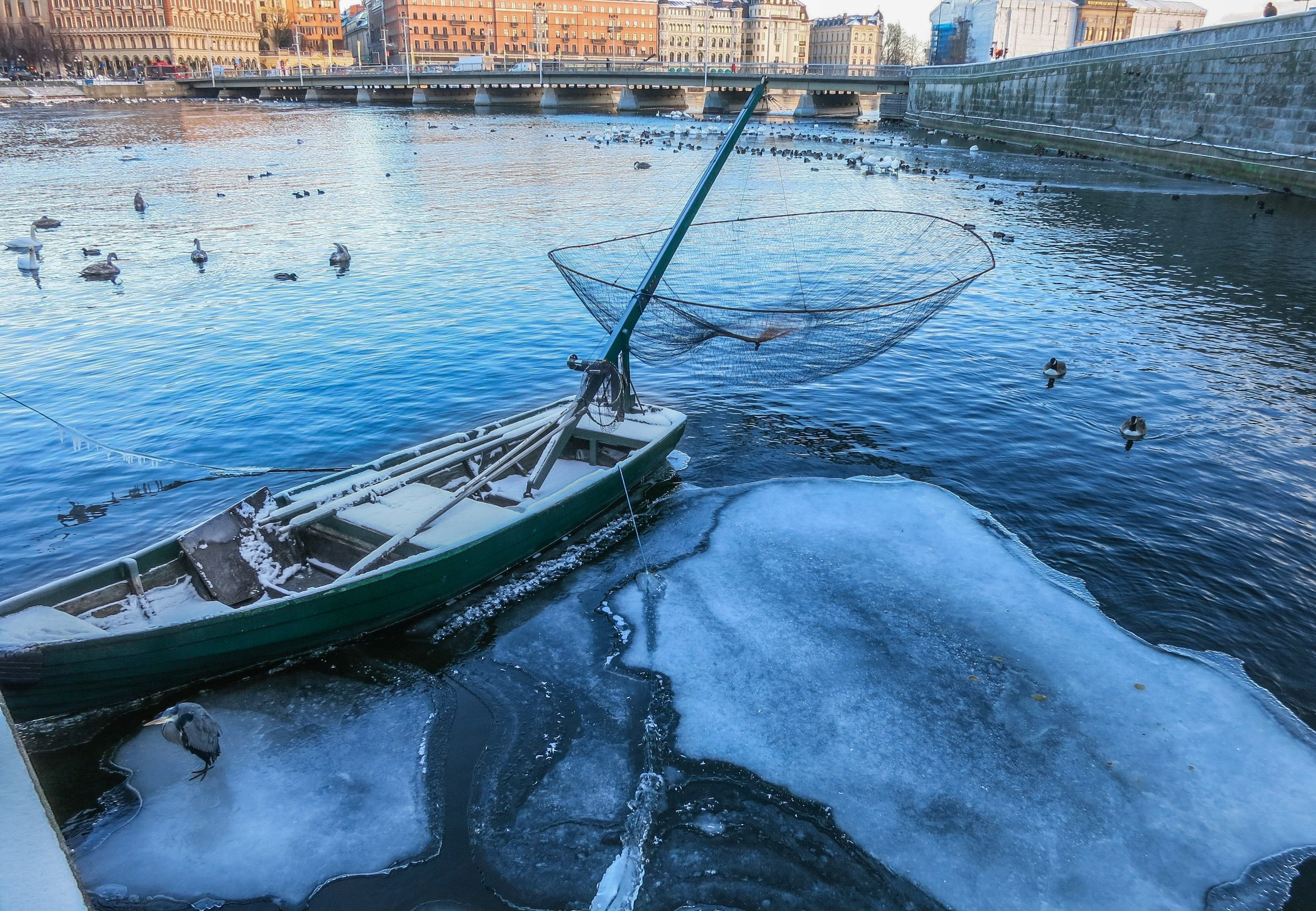 Fishing boat, Ardea cinenrea (in front of the boat) and other overwintering birds beside Sockholm Palace (Sweden).